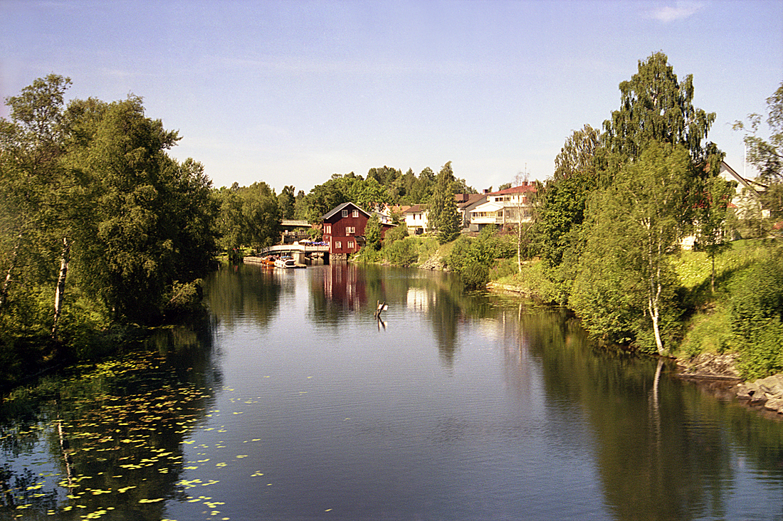 Swedish province. Töcksfors (Årjäng Municipality, Värmland County) on E18 road, in 5 kilometers from norwegian-swedish border.